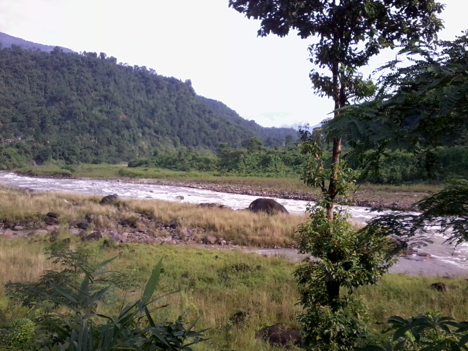 this is the famous Jaldhaka river in Darjeeling dist.